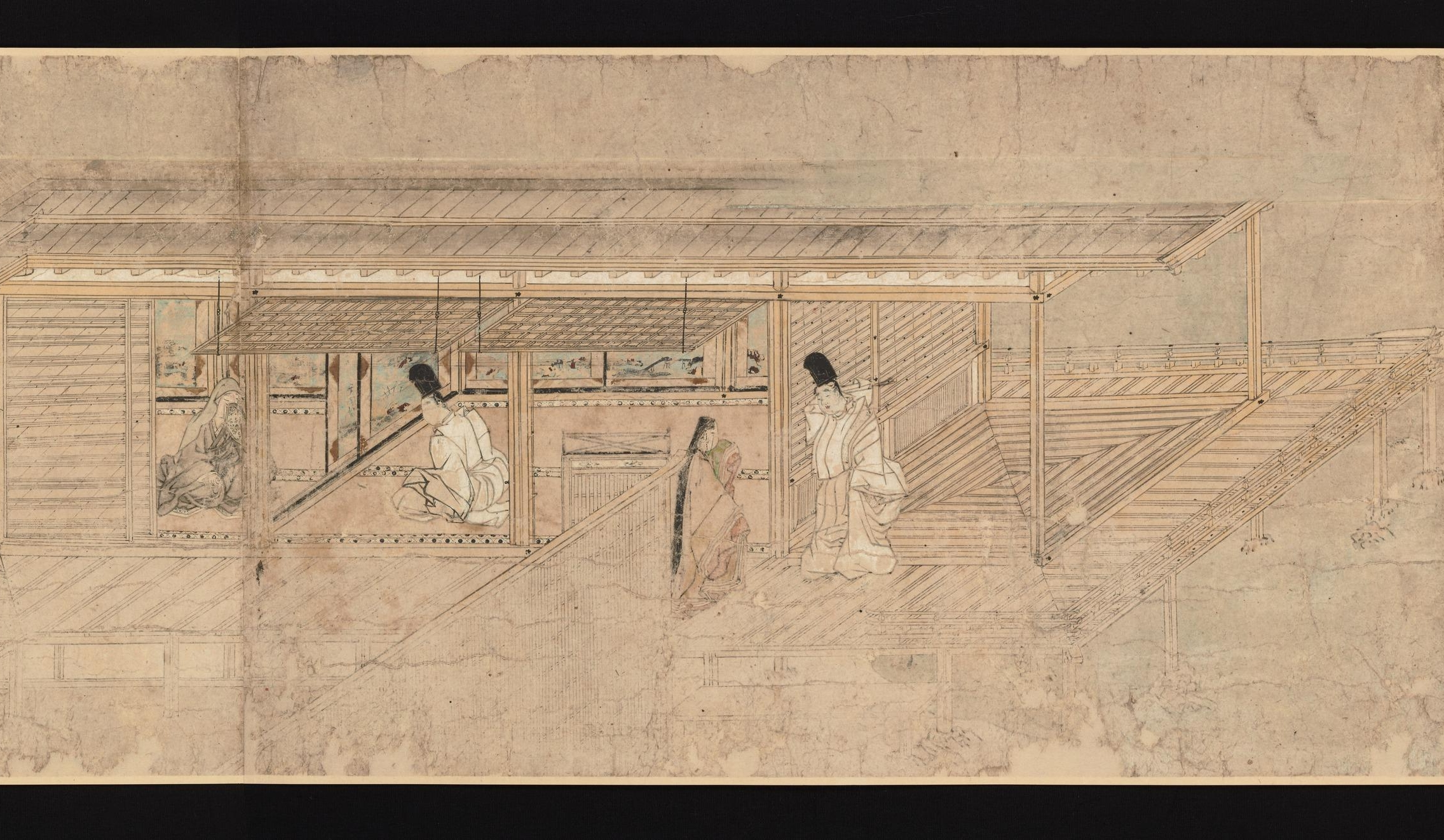 Sumiyoshi monogatari emaki. Tokyo National Museum. Part 2.